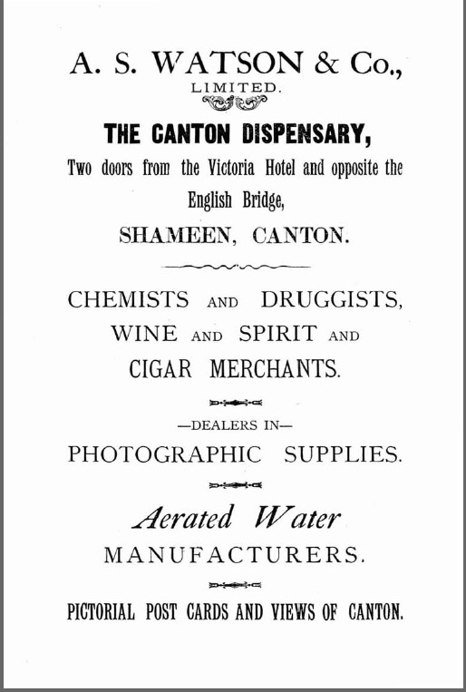 A.S. Watson advertisement, 1923